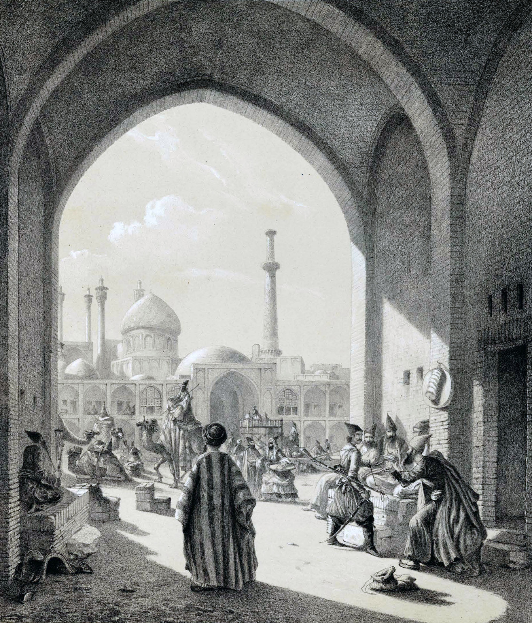 Enter a caravanserai in Isfahan